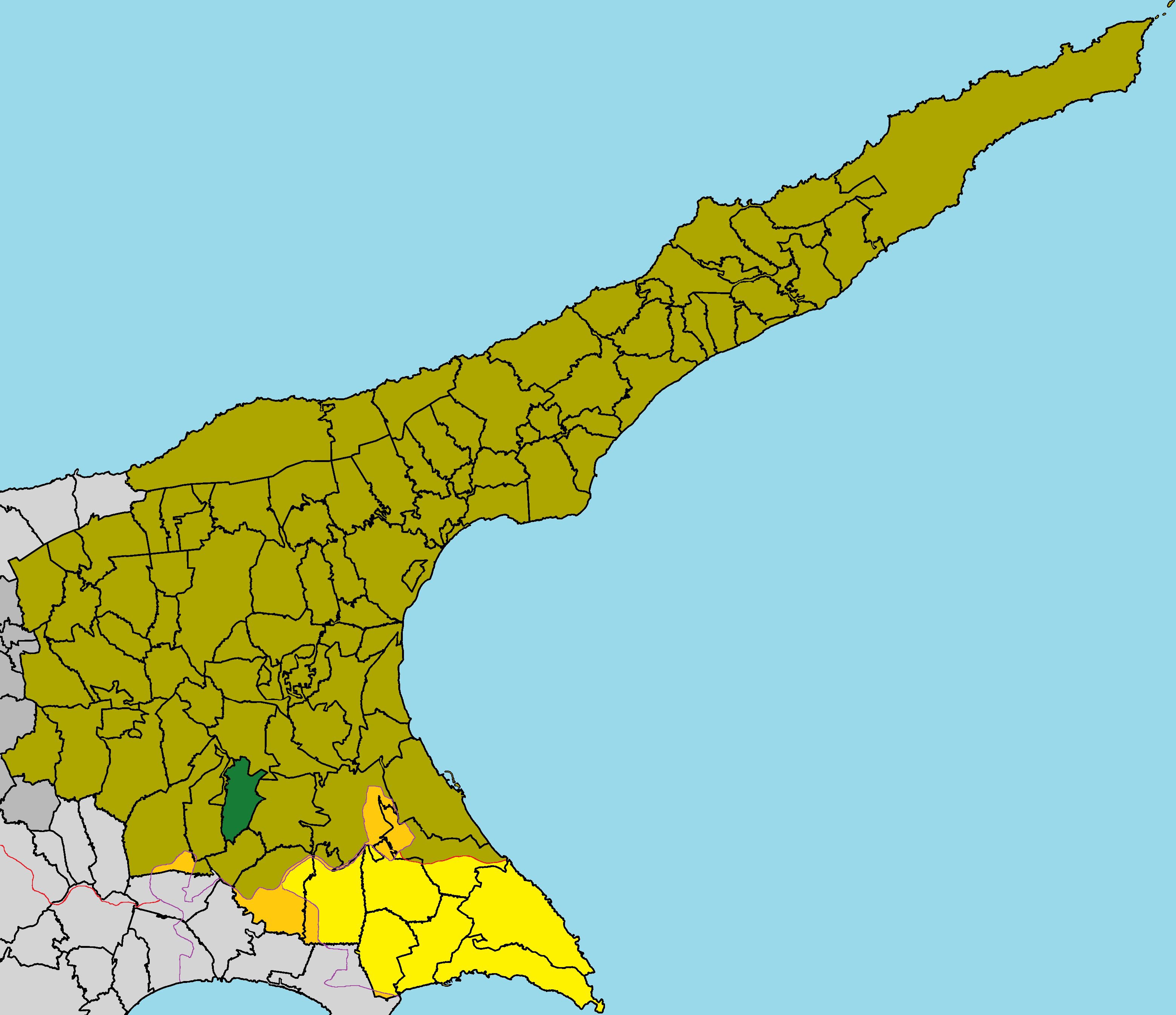 Kouklia in Famagusta District (de jure).